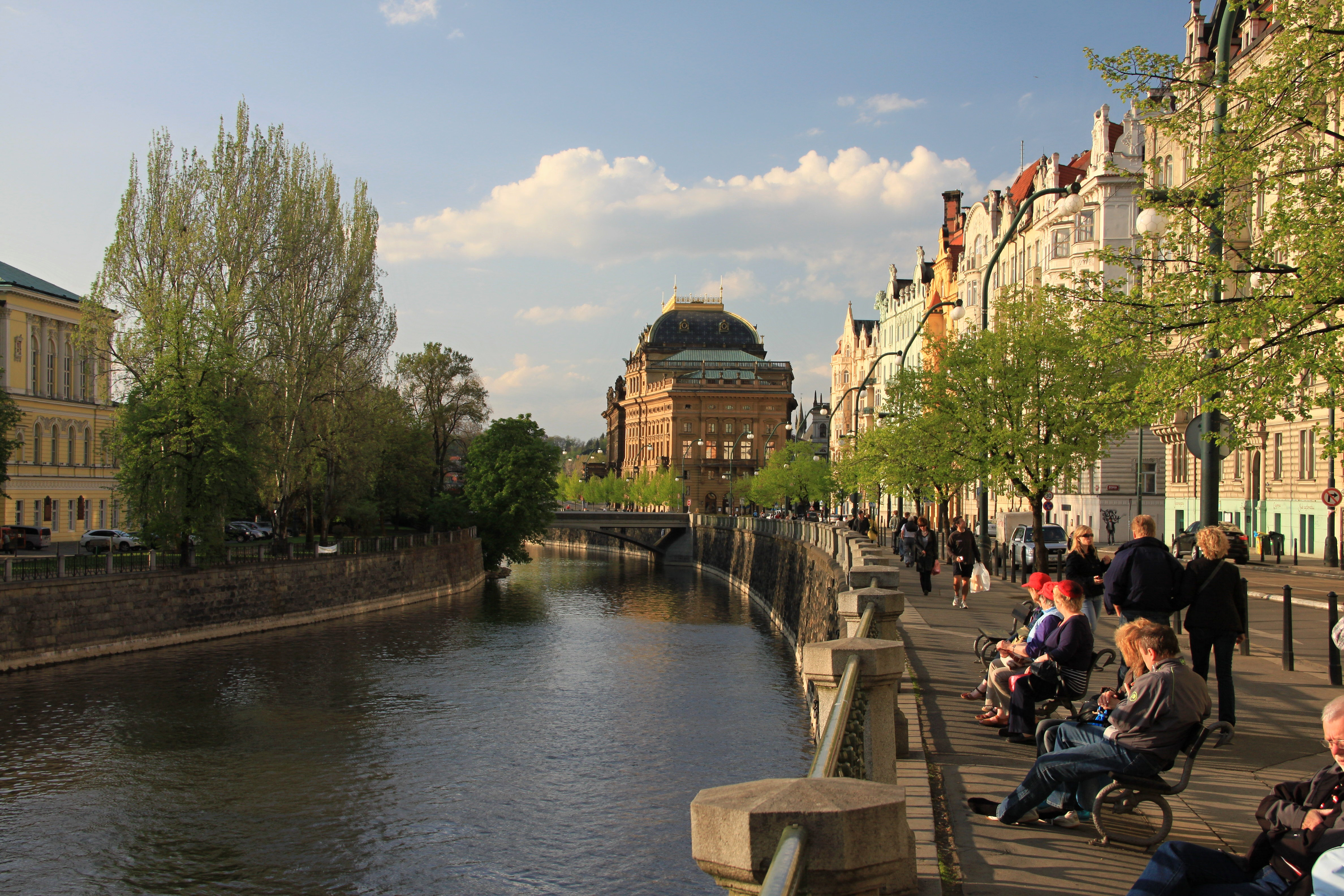 National Theater as seen from Masaryk waterfront, Prague, Czech Republic.